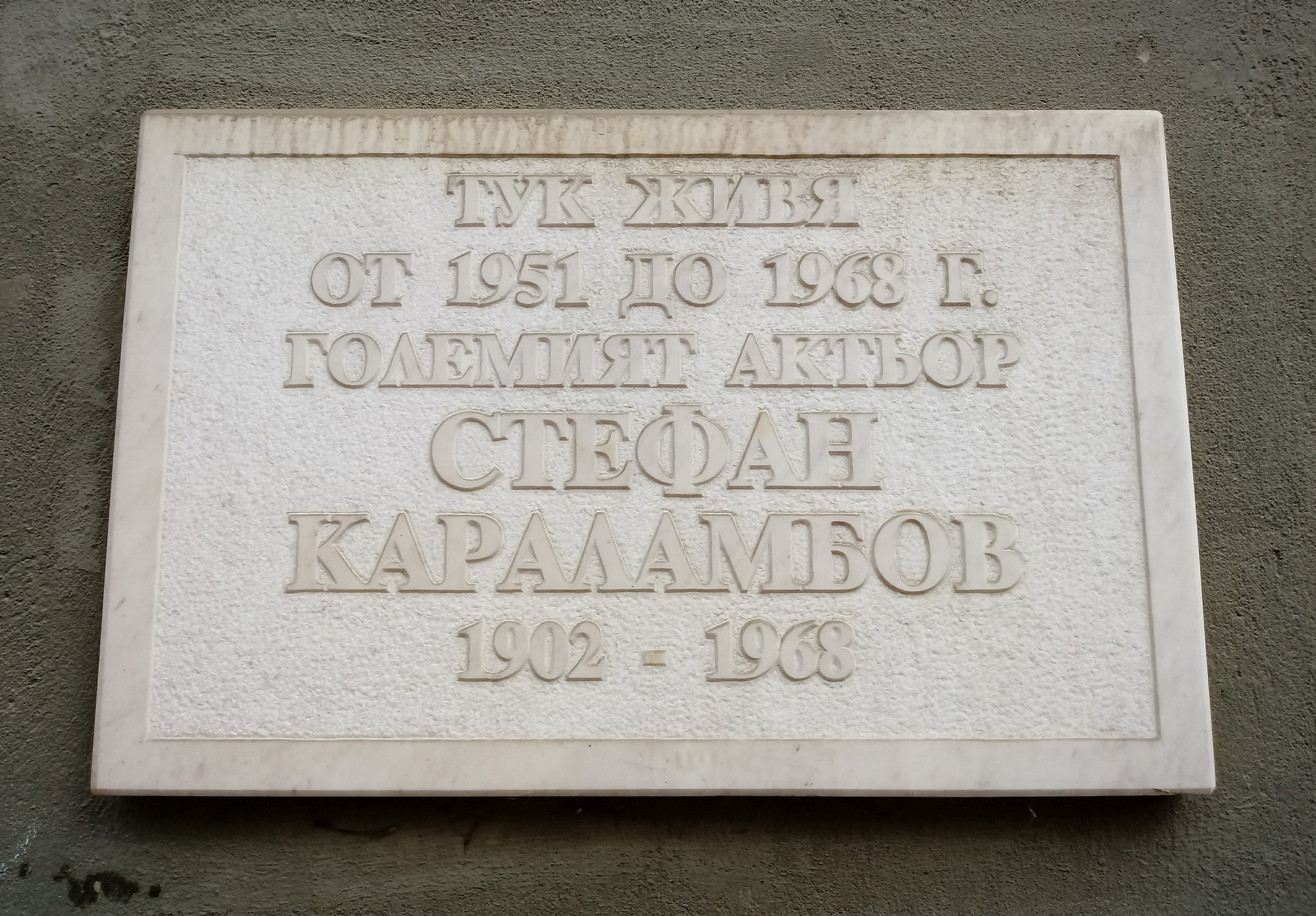 Stefan Karalambov memorial plaque, 39A Oborishte Str., Sofia